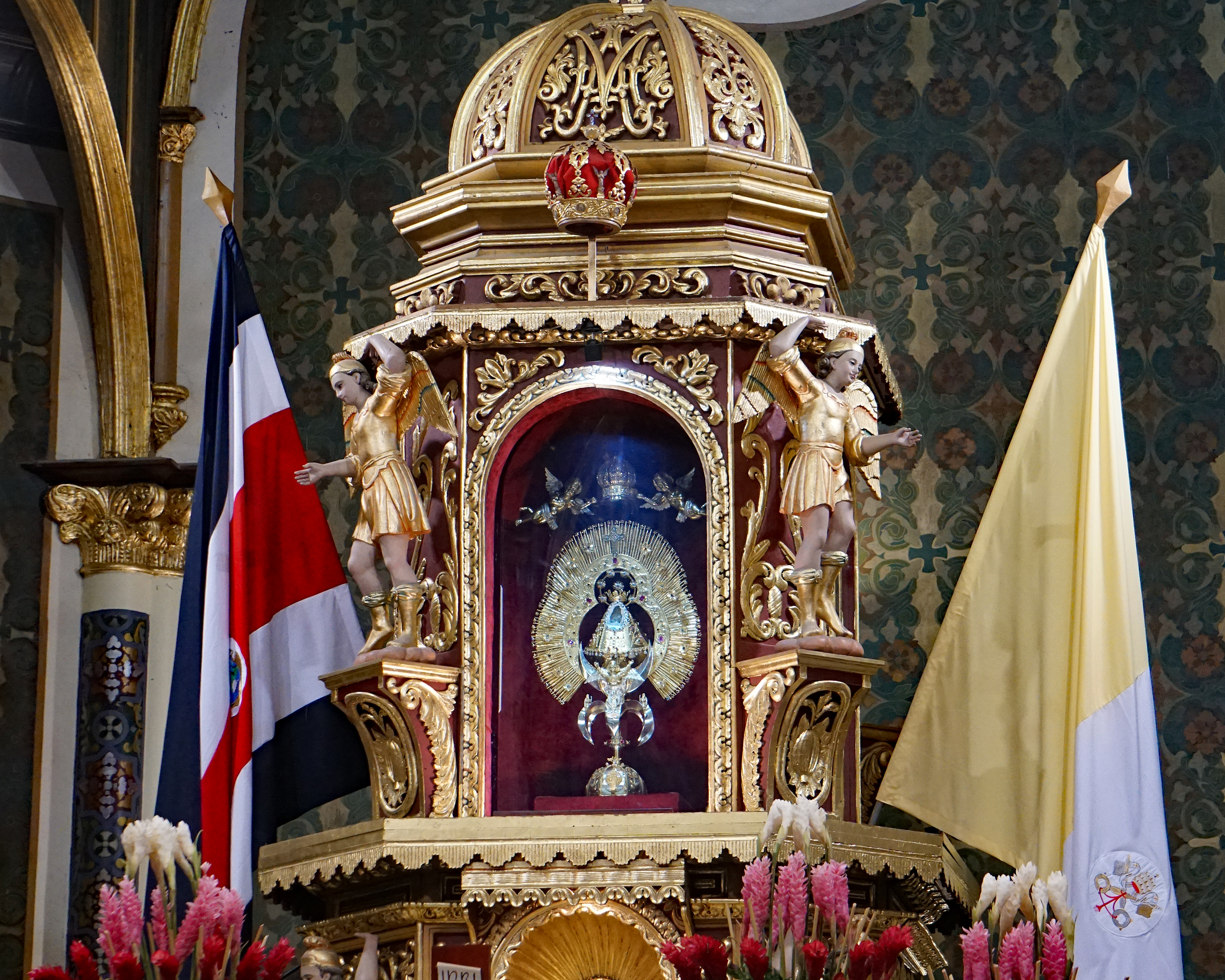 Our Lady of the Angels, Costa Rica's Patron Virgen in display at Our Lady of the Angels Basilica, Cartago, Costa Rica.